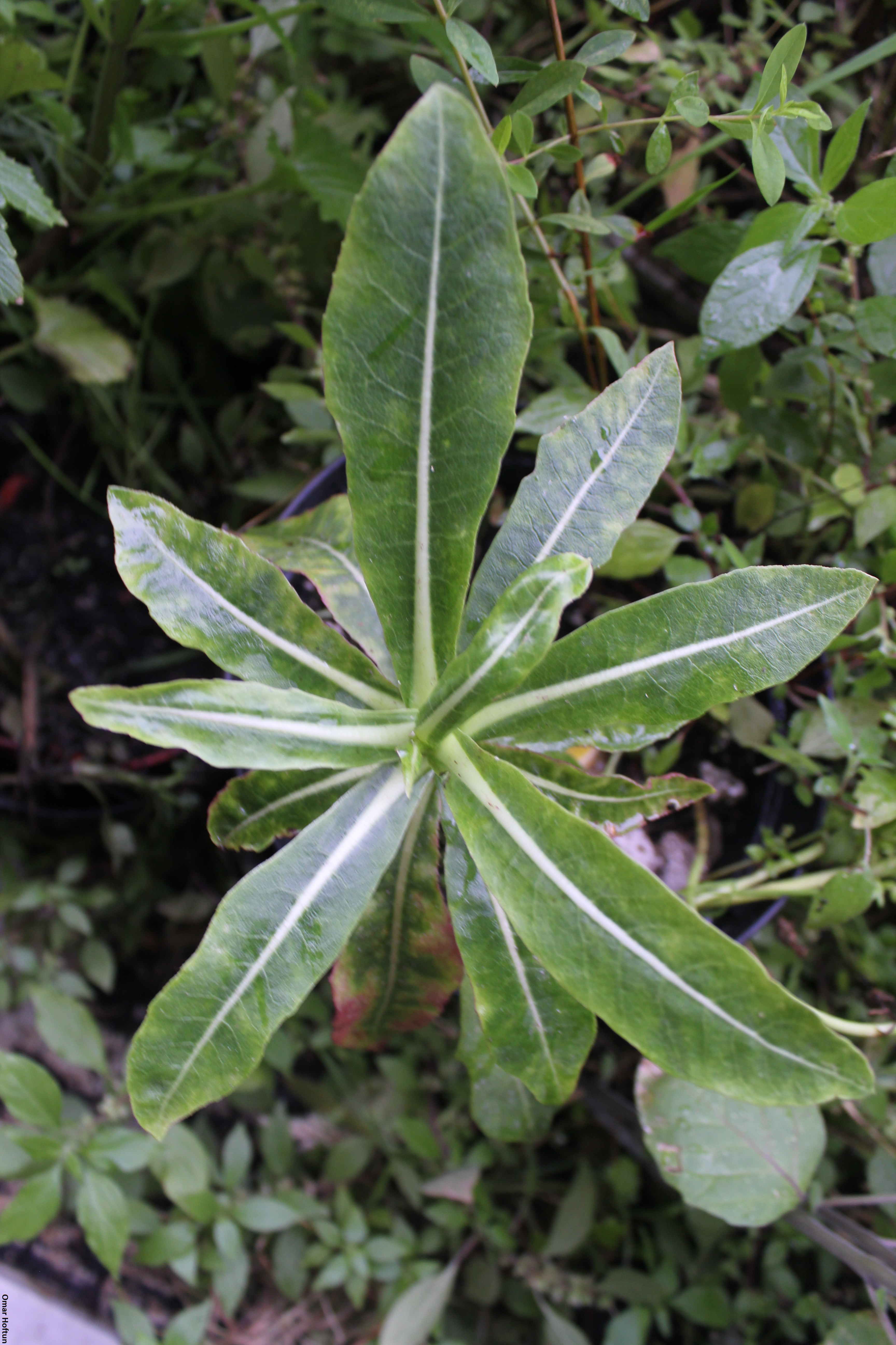 Dendroseris micrantha, young cultivated plant.